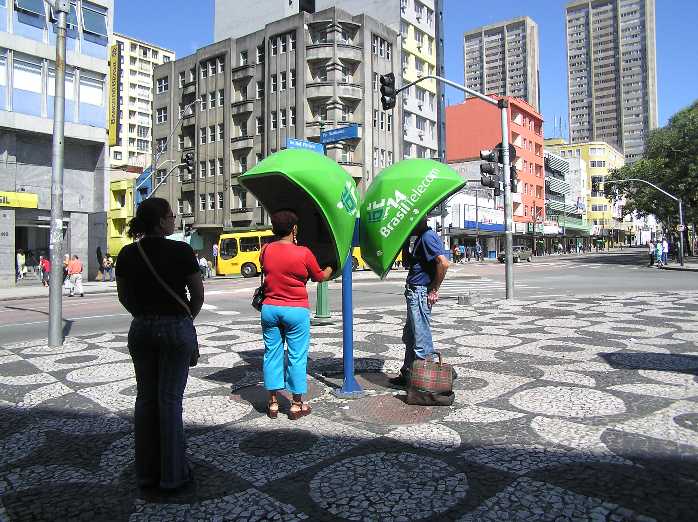 Telephone booth in Curitiba